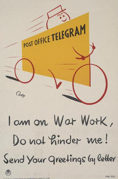 Post Office Telegram whole: the image occupies the top half, with the text positioned below. image: a post office telegram takes the form of a postman on a speeding bicycle through the application of a simple linear drawing. text:POST OFFICE TELEGRAM Berger I am on War Work, Do not hinder me! Send Your Greetings by letter GPO PRINTED FOR H.M. STATIONERY OFFICE BY MULTI MACHINE PLATES LTD. LONDON E.C.4 51-3692 PRD 303